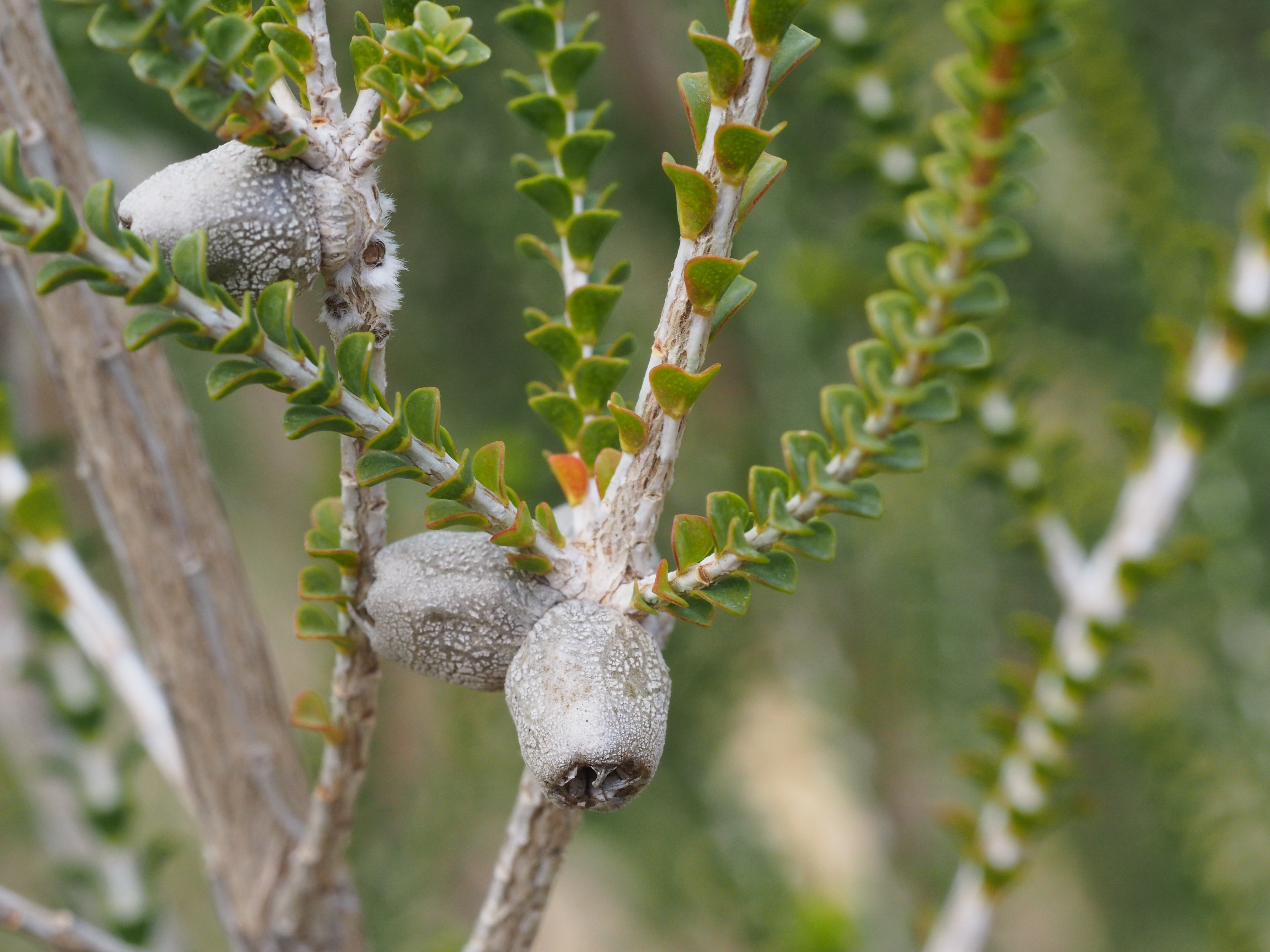 Beaufortia sprengelioides growing in Kings Park